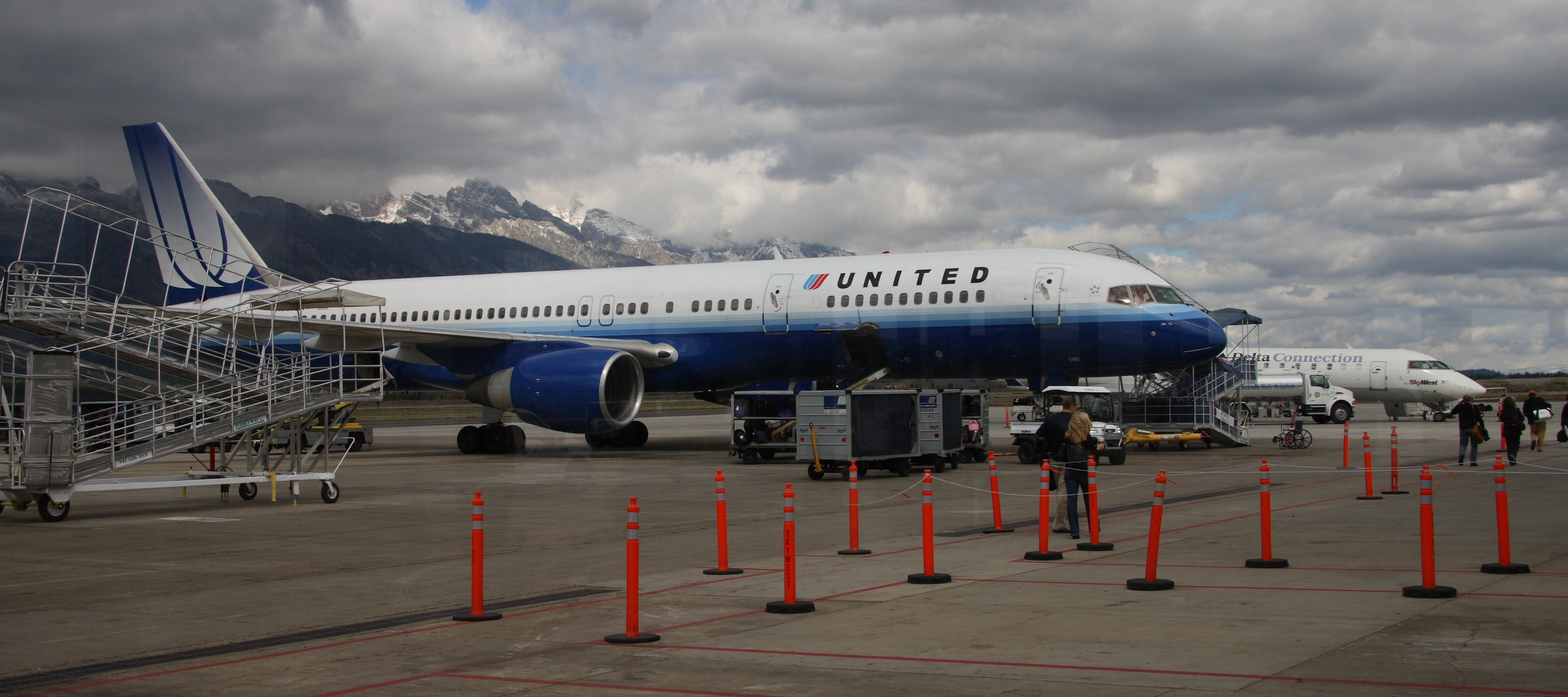 A United Airlines Boeing 757-200 (probably N561UA) and a Delta Connection CRJ 700 (operated by Sky West) are on the ramp at Jackson Hole Airport (JAC), Wyoming, USA